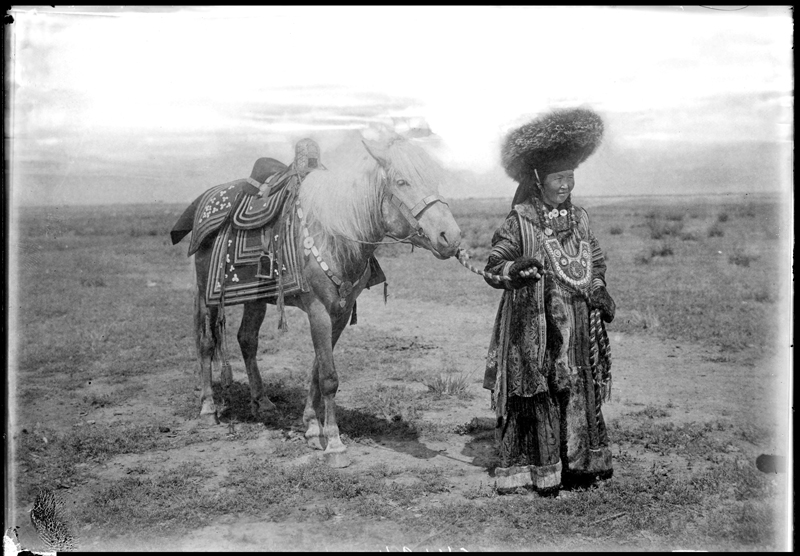 Minusinsk District, Russia, 1900s. The matchmaker, an elderly Khakas woman from Haas (Russian: качинцы) tribe, on her way.